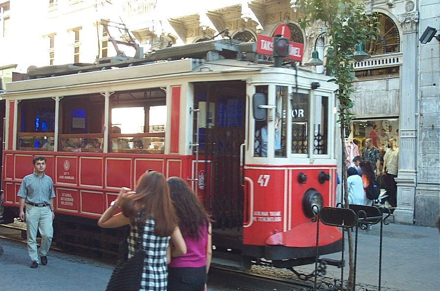 Beyoğlu, Istanbul